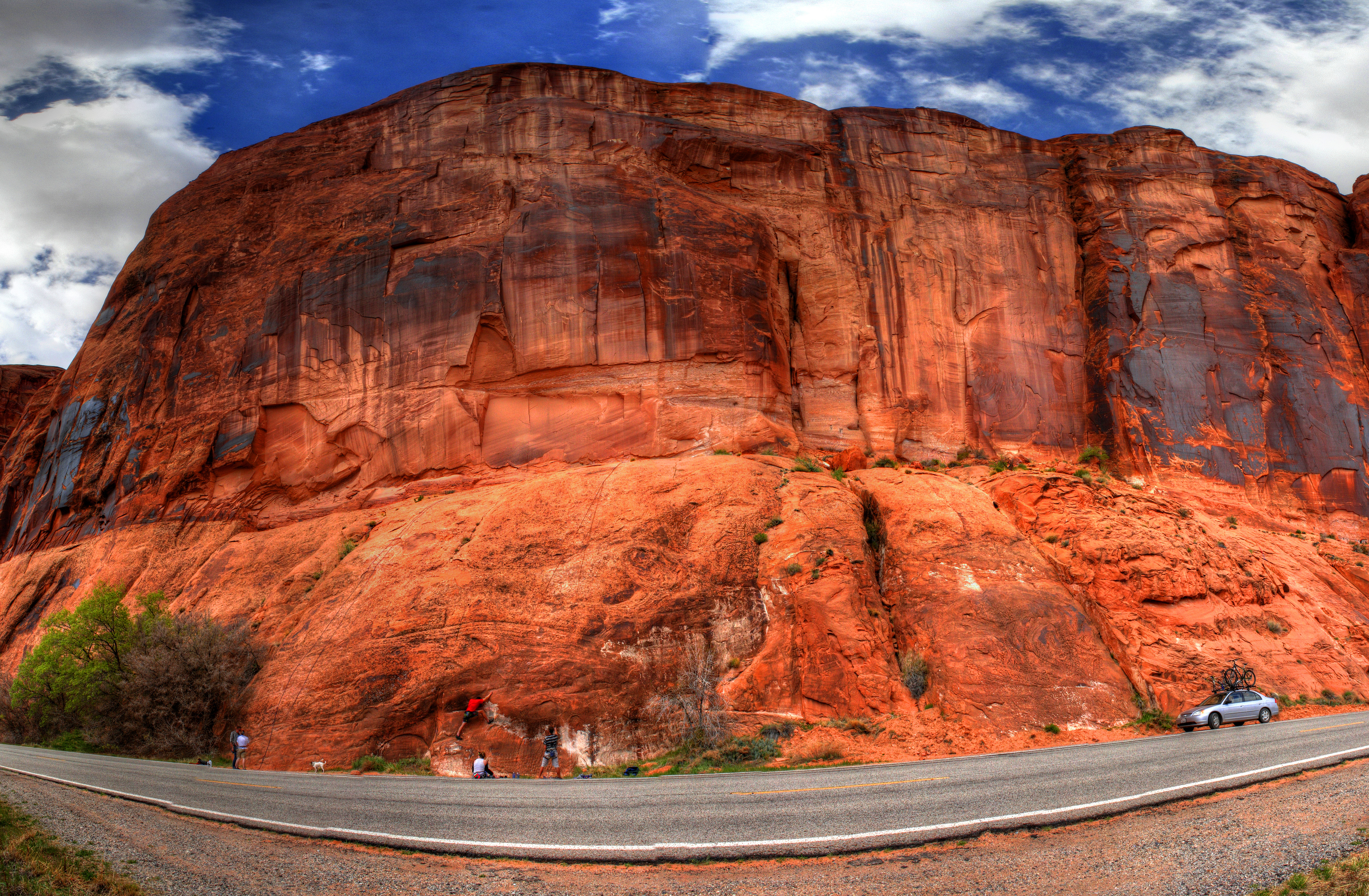 Wall Street Climbing Area on Utah State Route 279